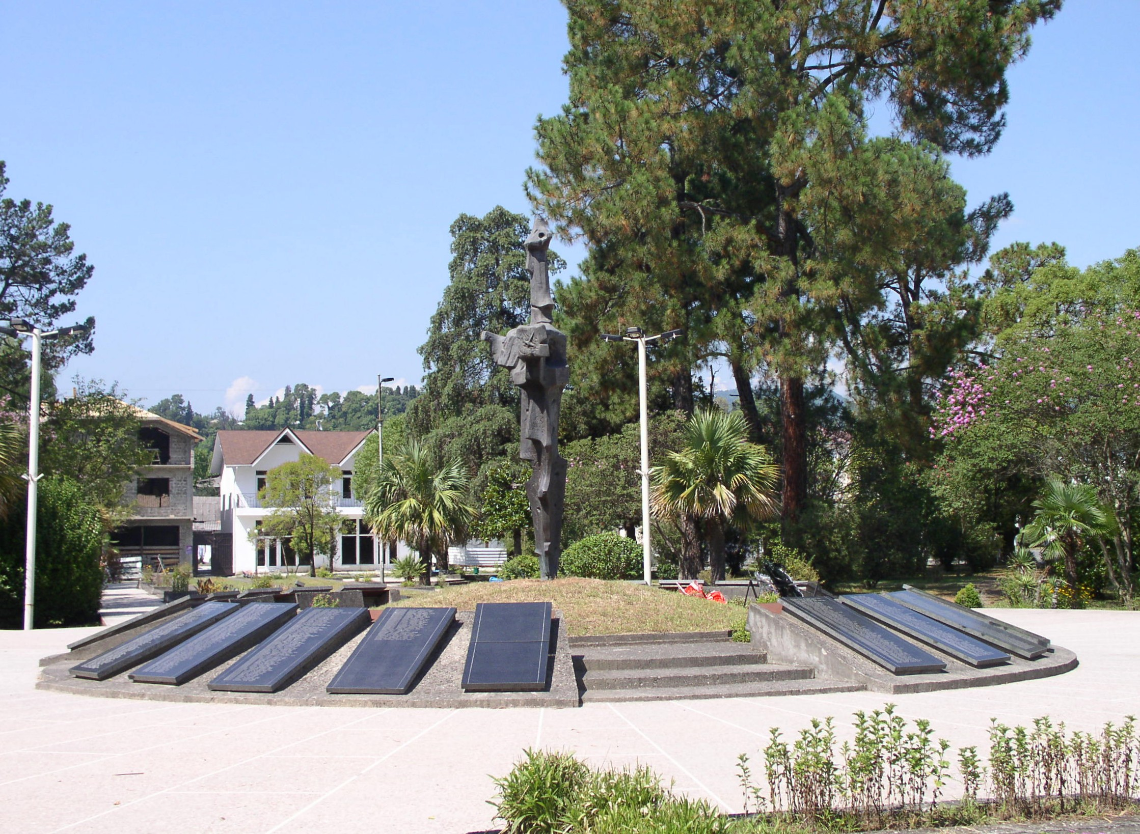 Monument to those killed during the 1992-1993 war in Sukhumi, Abkhazia. All their names are listed on the marble slabs.